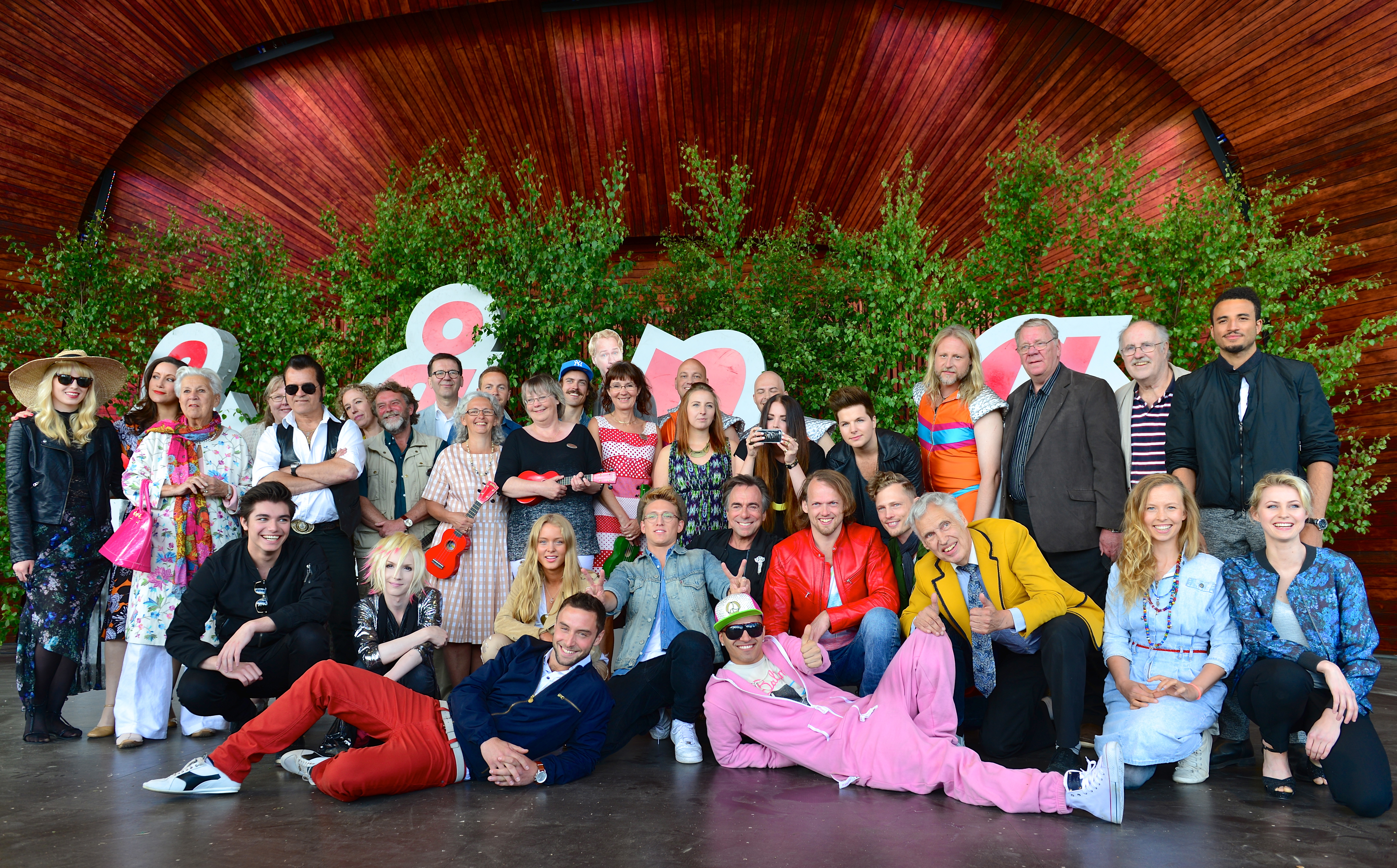 Music Artists in the tv-show "Allsång på Skansen" presented June 11, 2013 at Skansen in Stockholm.